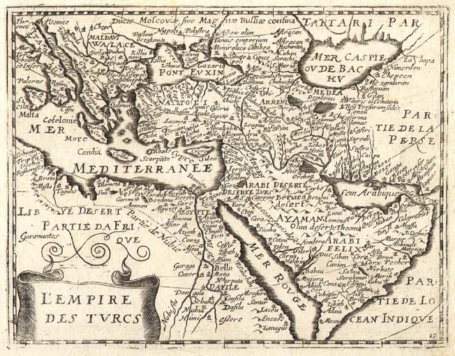 Old map of the Ottoman Empire and surrounding areas